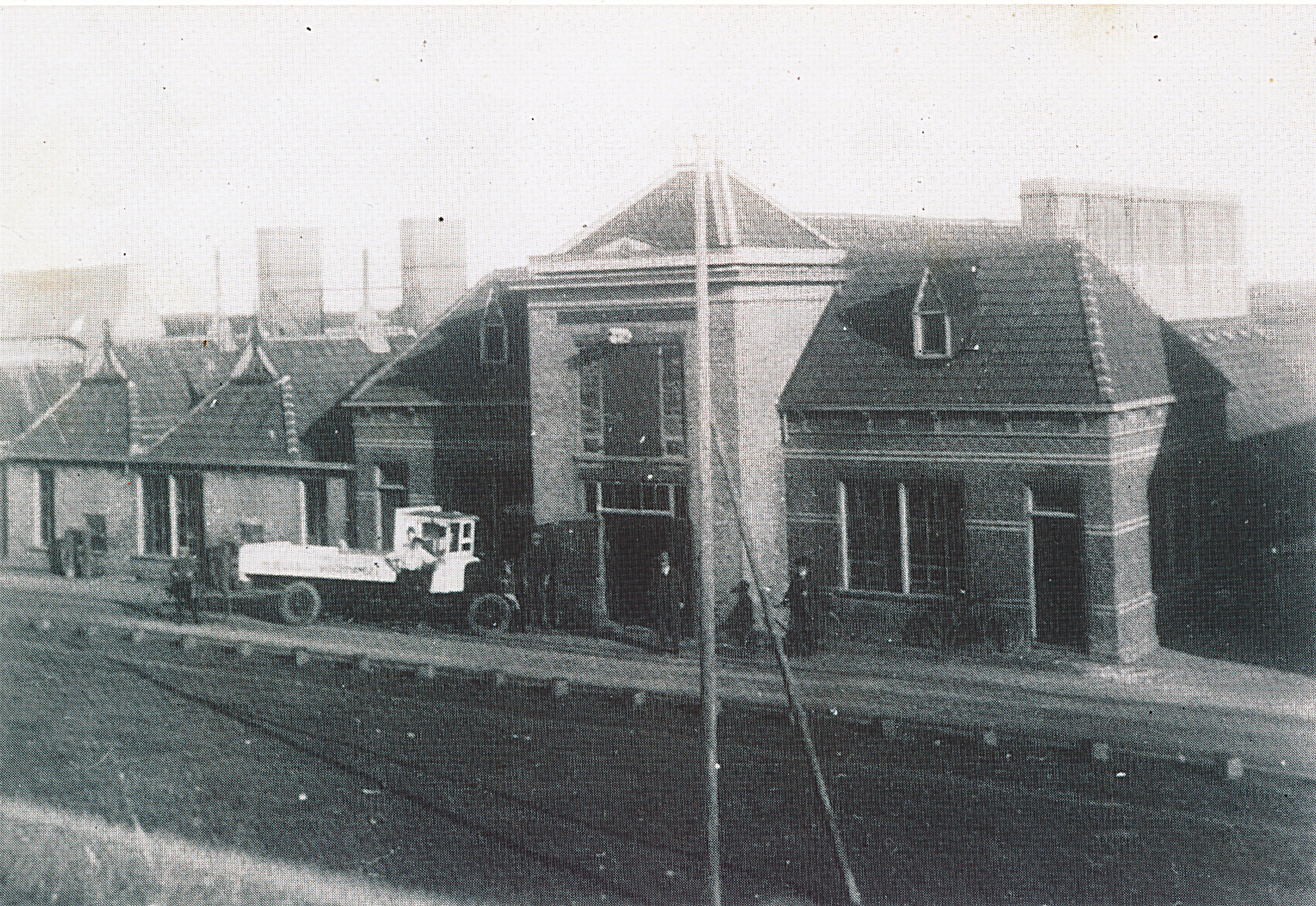 The buildings of the Friesche Coöperatieve Vischhandel near the sea dike at Harlingen